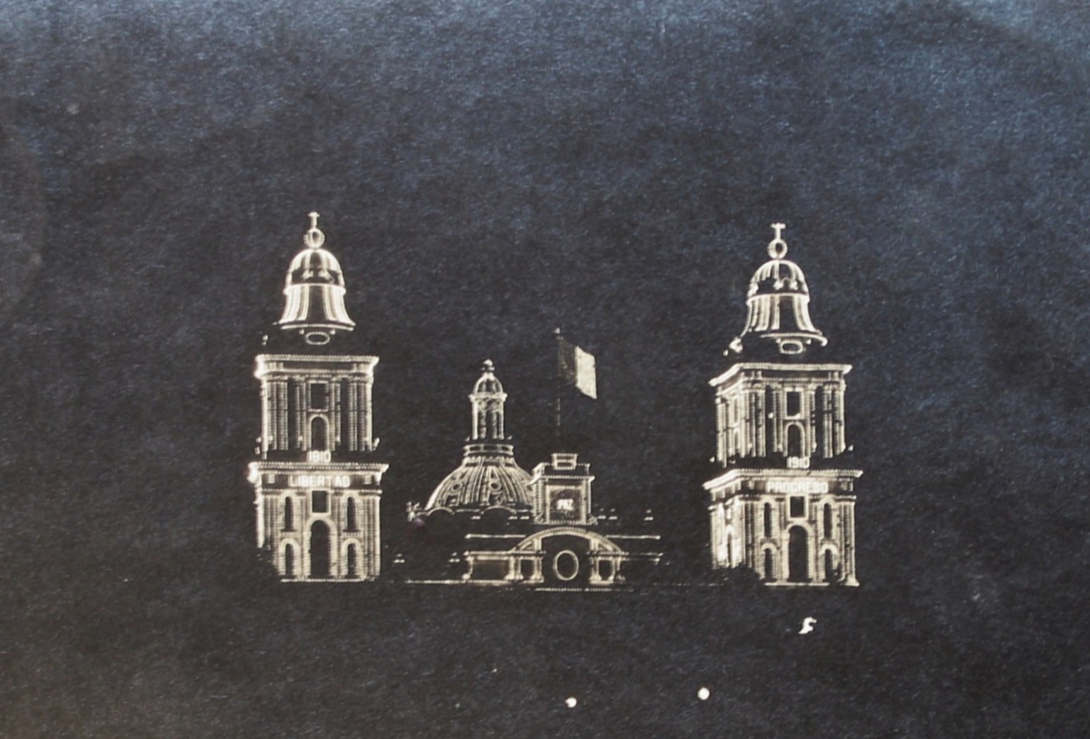 september 1910, cathedral, Mexico city